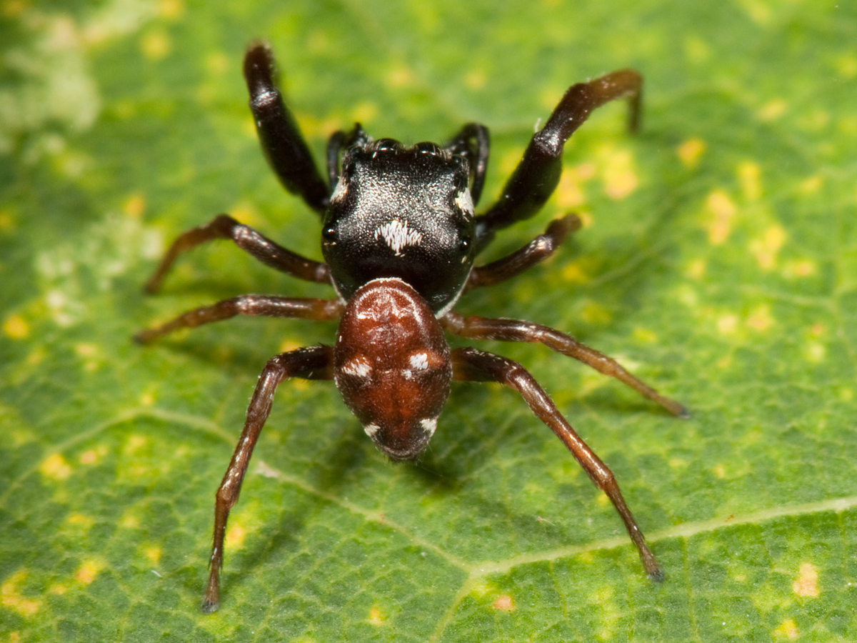 Adult male Zygoballus sexpunctatus jumping spider found at Shelby Park in Nashville, Tennessee. Body length: 3.5 mm.